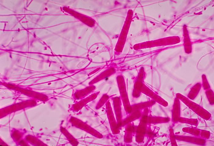 ID#: 3050 Description: This photomicrograph depicts the microconidia of the fungus Trichophyton mariatii. Many members of the Trichophyton spp. inhabit the soil, humans or animals, and are one of the leading causes of dermatophytosis in humans, an infections of the skin, hair, and nails due to these fungi’s ability to utilize keratin. Content Providers(s): CDC/Dr. Arvind A. Padhye Creation Date: 1979 Copyright Restrictions: None - This image is in the public domain and thus free of any copyright restrictions. As a matter of courtesy we request that the content provider be credited and notified in any public or private usage of this image.